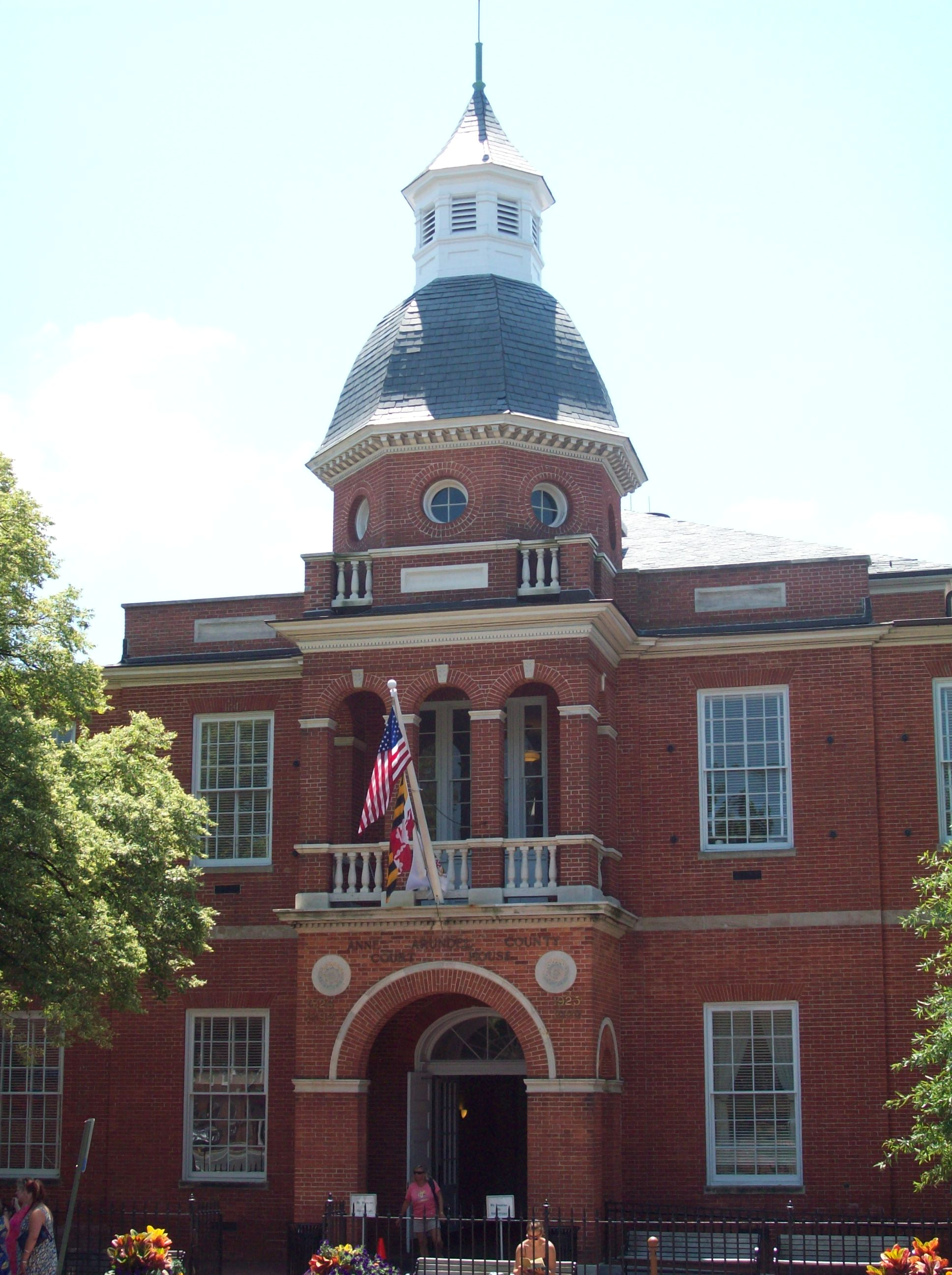 Anne Arundel County Courthouse, July 2009